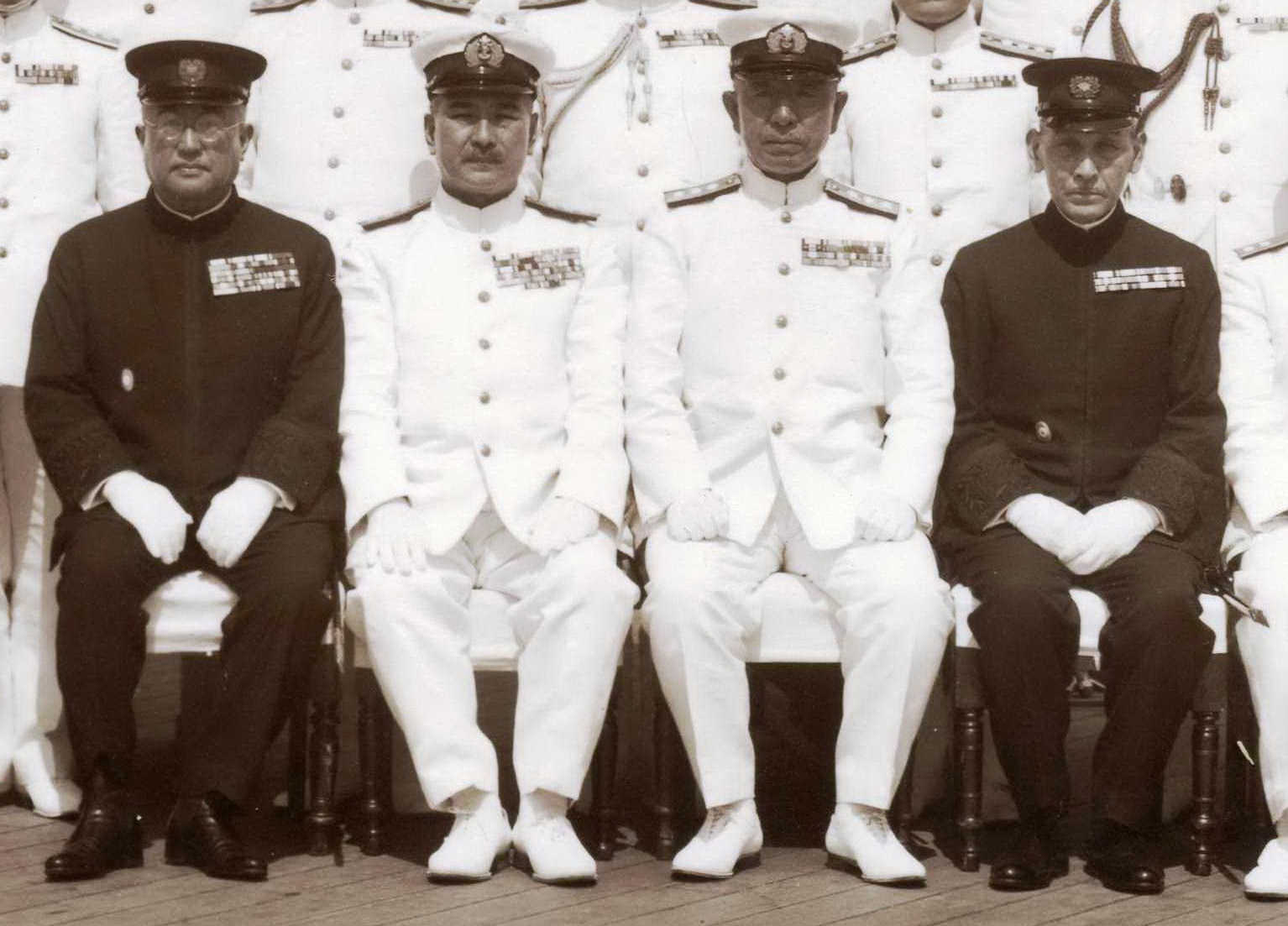 Left to right, Matsudaira Tsuneo, Shimada Shigetaro, Koga Mineichi and Hyakutake Saburō on the deck of the battleship Musashi.